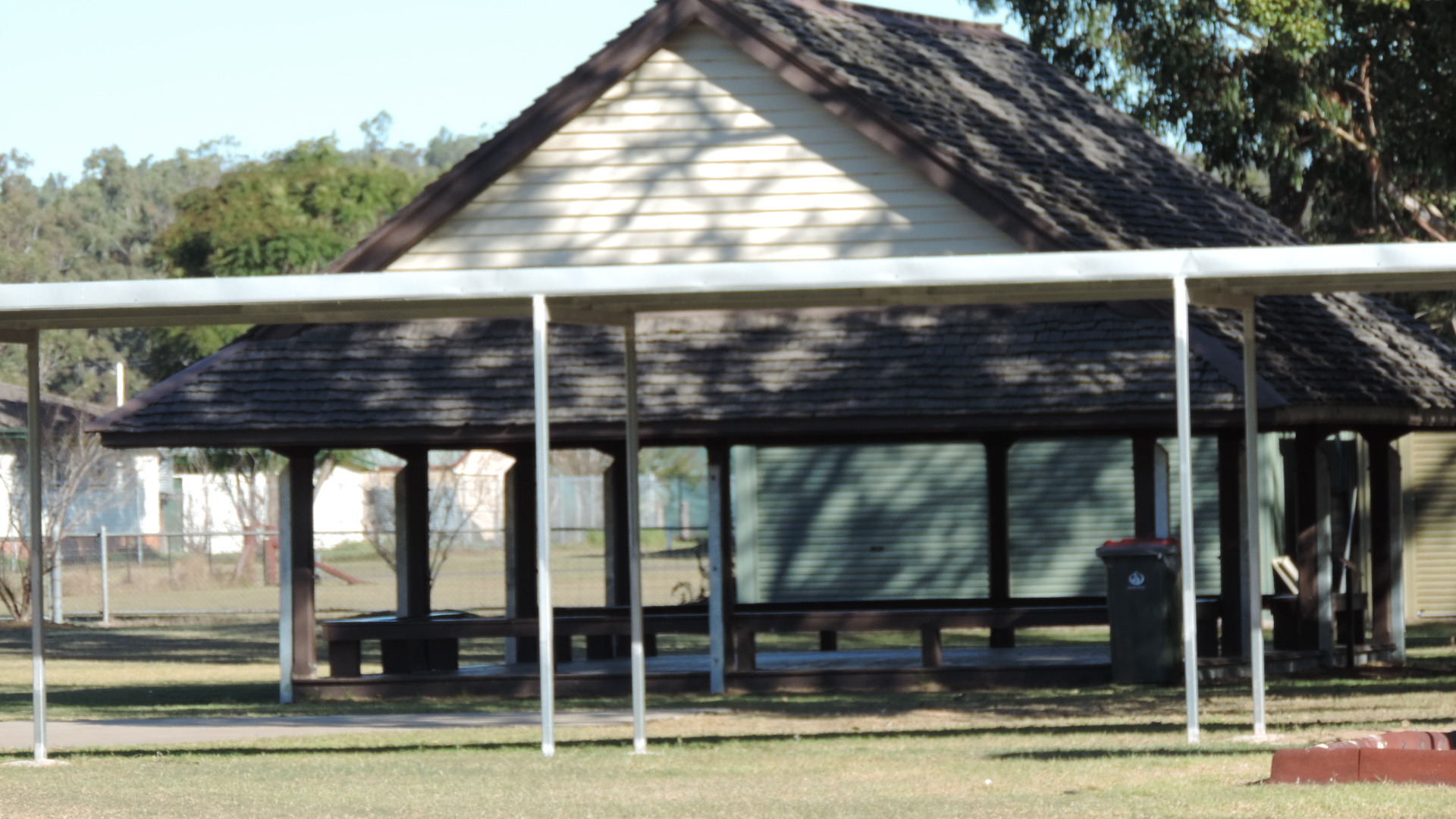 Playshed, Leyburn State School, 2015